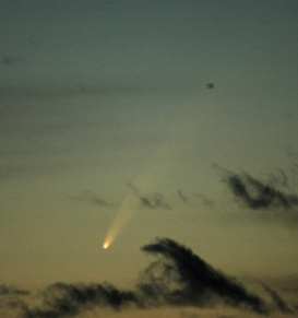 Comet McNaught (C/2006 P1) on Jan/10/2007 at 16:33UTC taken in Gais/Switzerland. Photographer: Mark Vornhusen